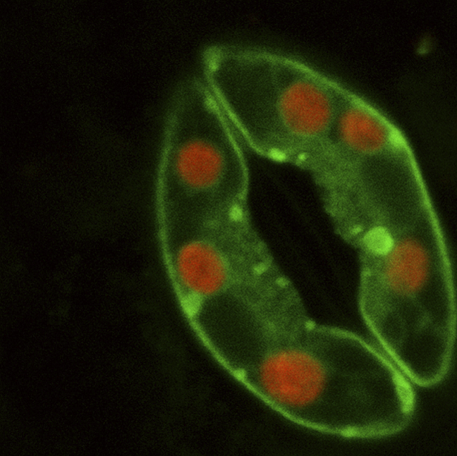 Confocal image of an Arabidopsis stomate showing two guard cells exhibiting green fluorescent protein and native chloroplast (red) fluorescence.